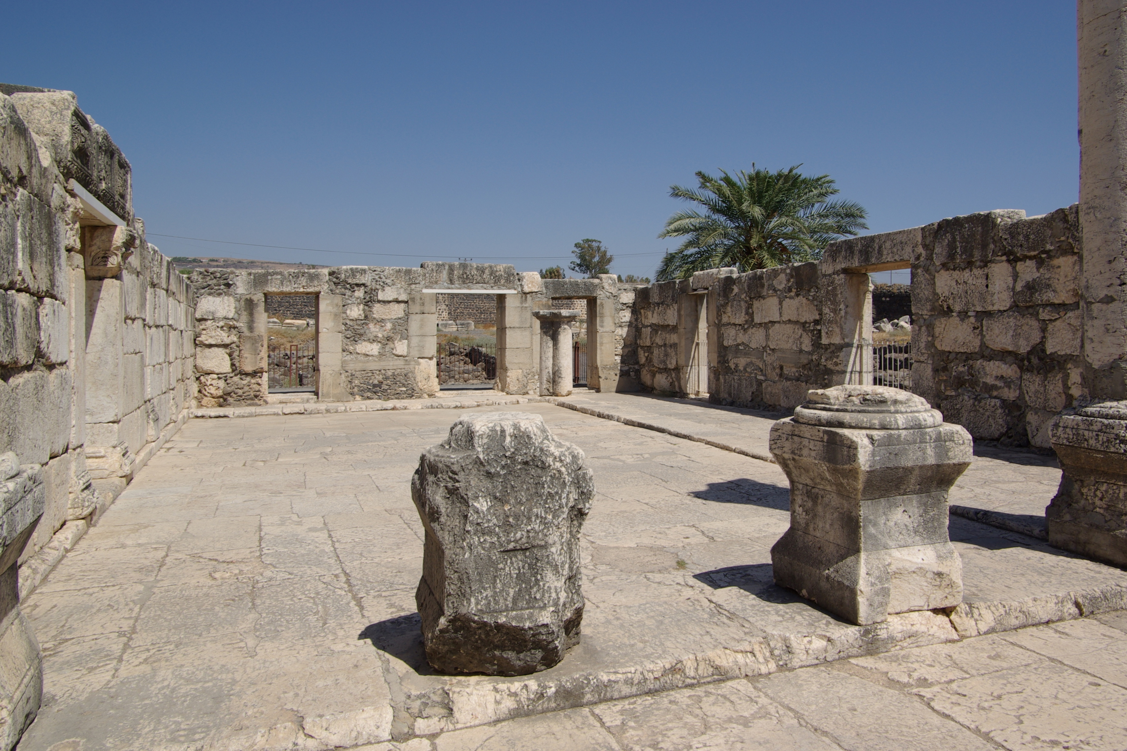 Capernaum, Synagogue, Side room